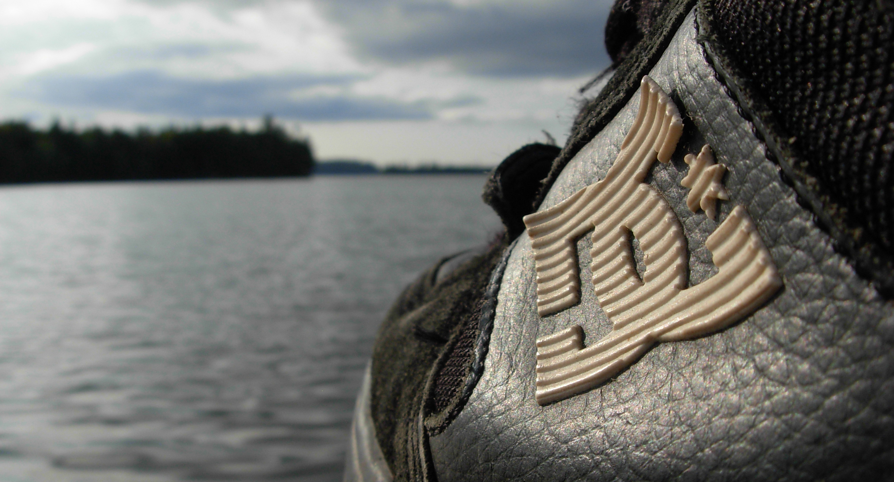 My Shoe (DC) near St. George